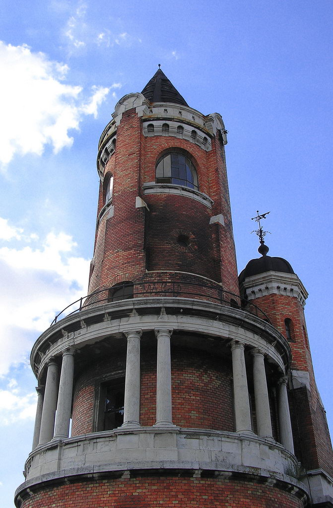 Gardoš tower. Millenium tower.